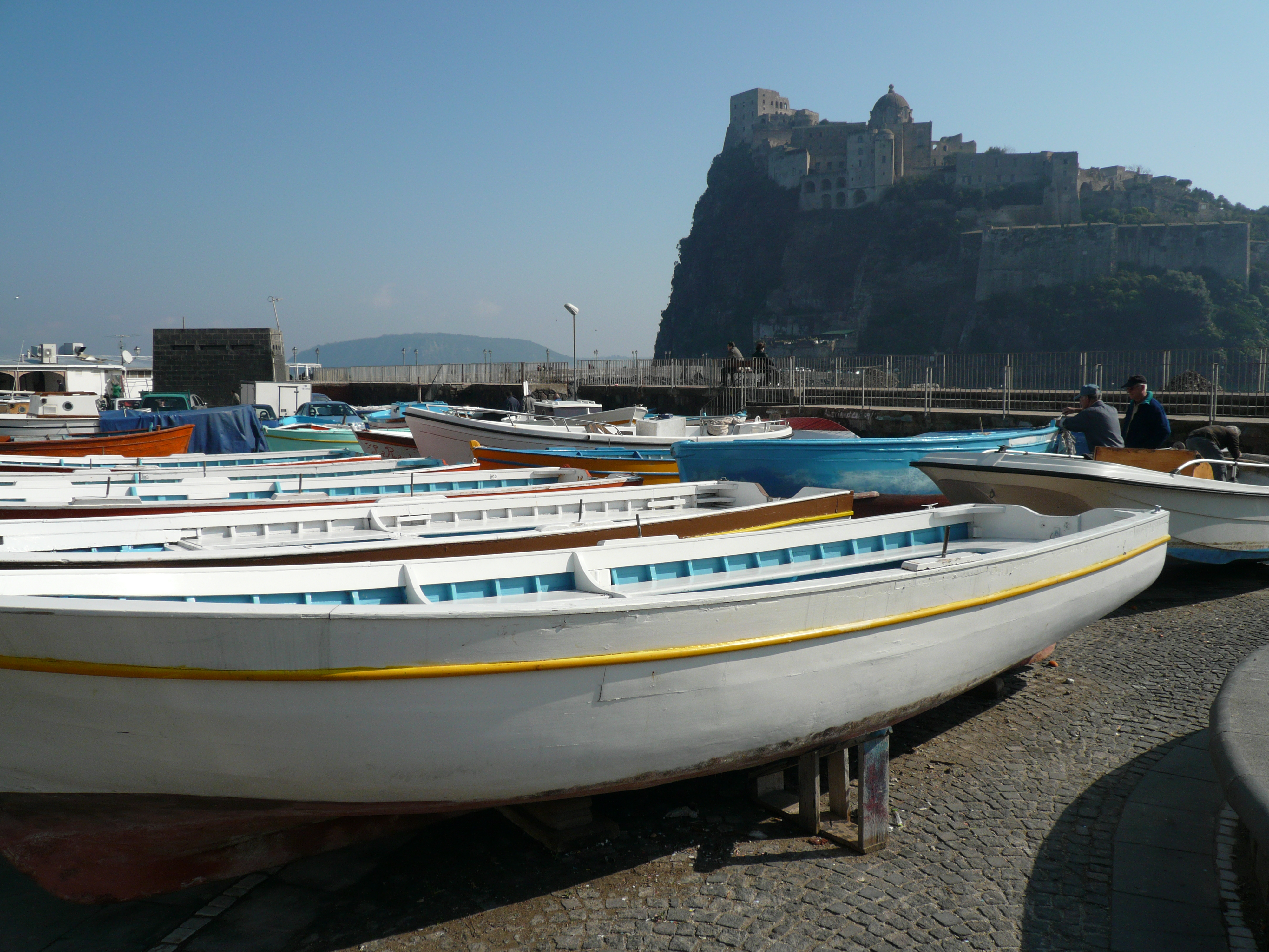 barche ad Ischia Ponte